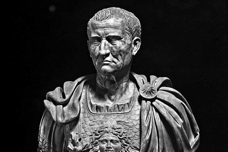 Servius Sulpicius Galba